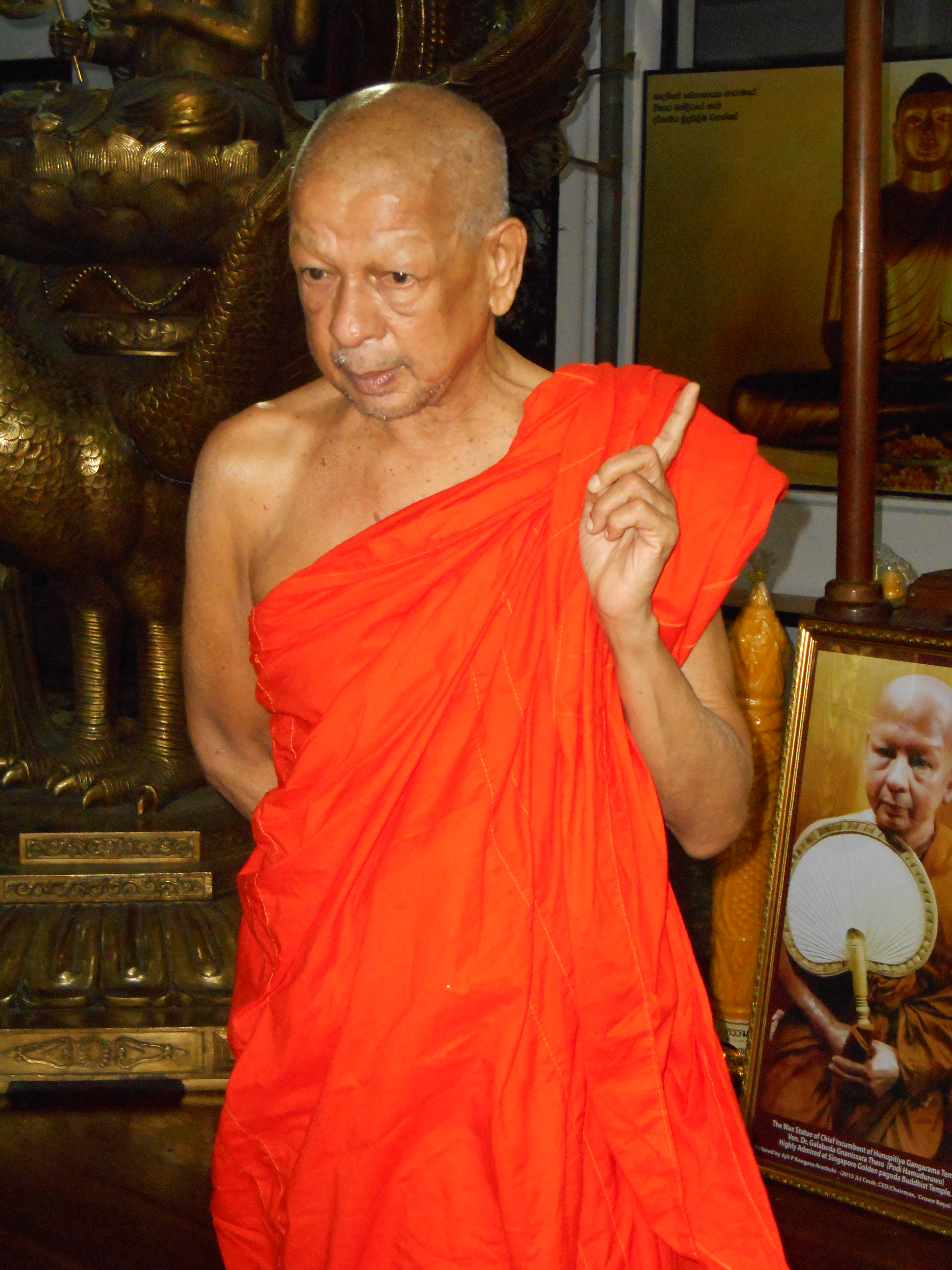 Photograph of Galboda Gnanissara Thera